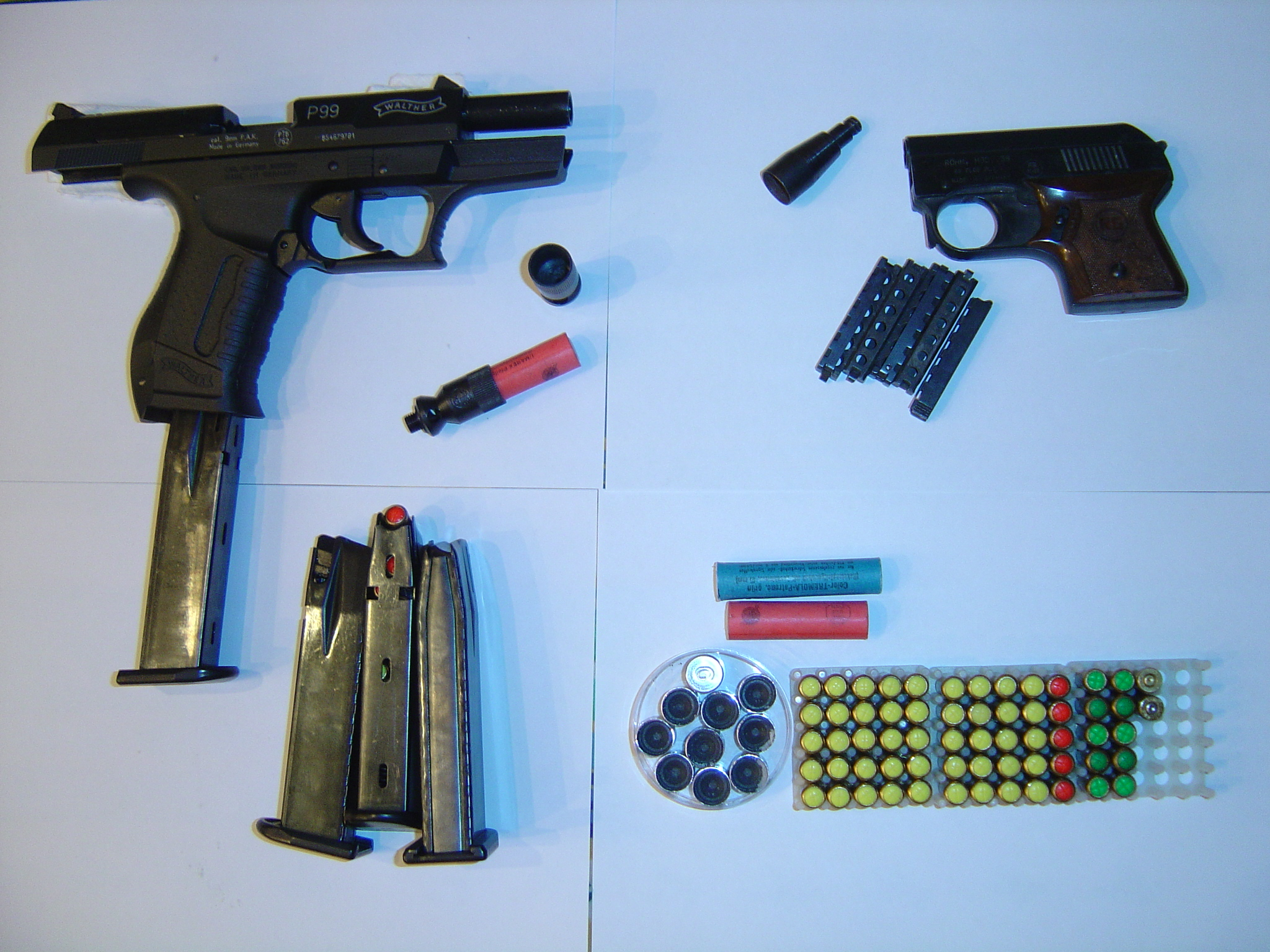 Walther P99, Röhm mod. 3s blank guns withe magazines, 9mm P.A and pyrotechnic ammunition